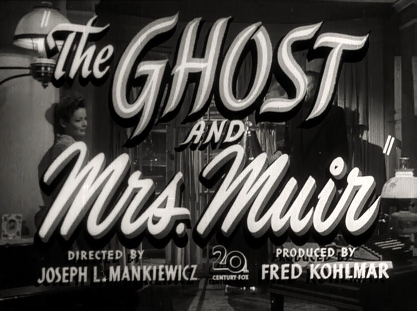 The Ghost and Mrs. Muir - trailer (cropped screenshot)